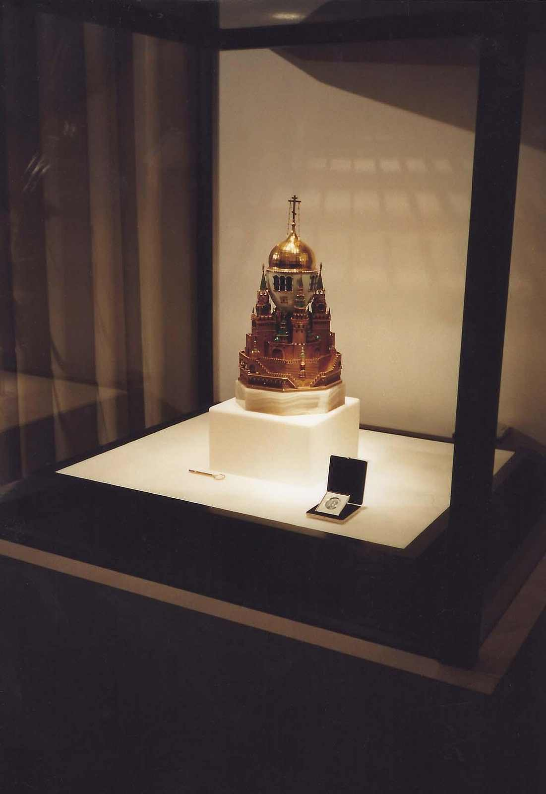 The central showcase of "The World of Faberge" exhibition. The Moscow Kremlin Museums